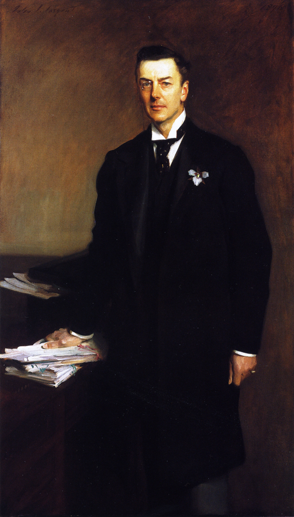 "The Right Honourable Joseph Chamberlain," oil on canvas, by the American artist John Singer Sargent. Courtesy of the National Portrait Gallery, London.